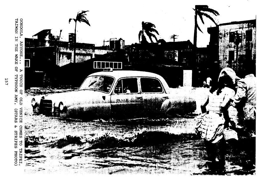 Amy damage from 1962. Produced by Stars and Stripes although its on the JTWC report for Amy. URL